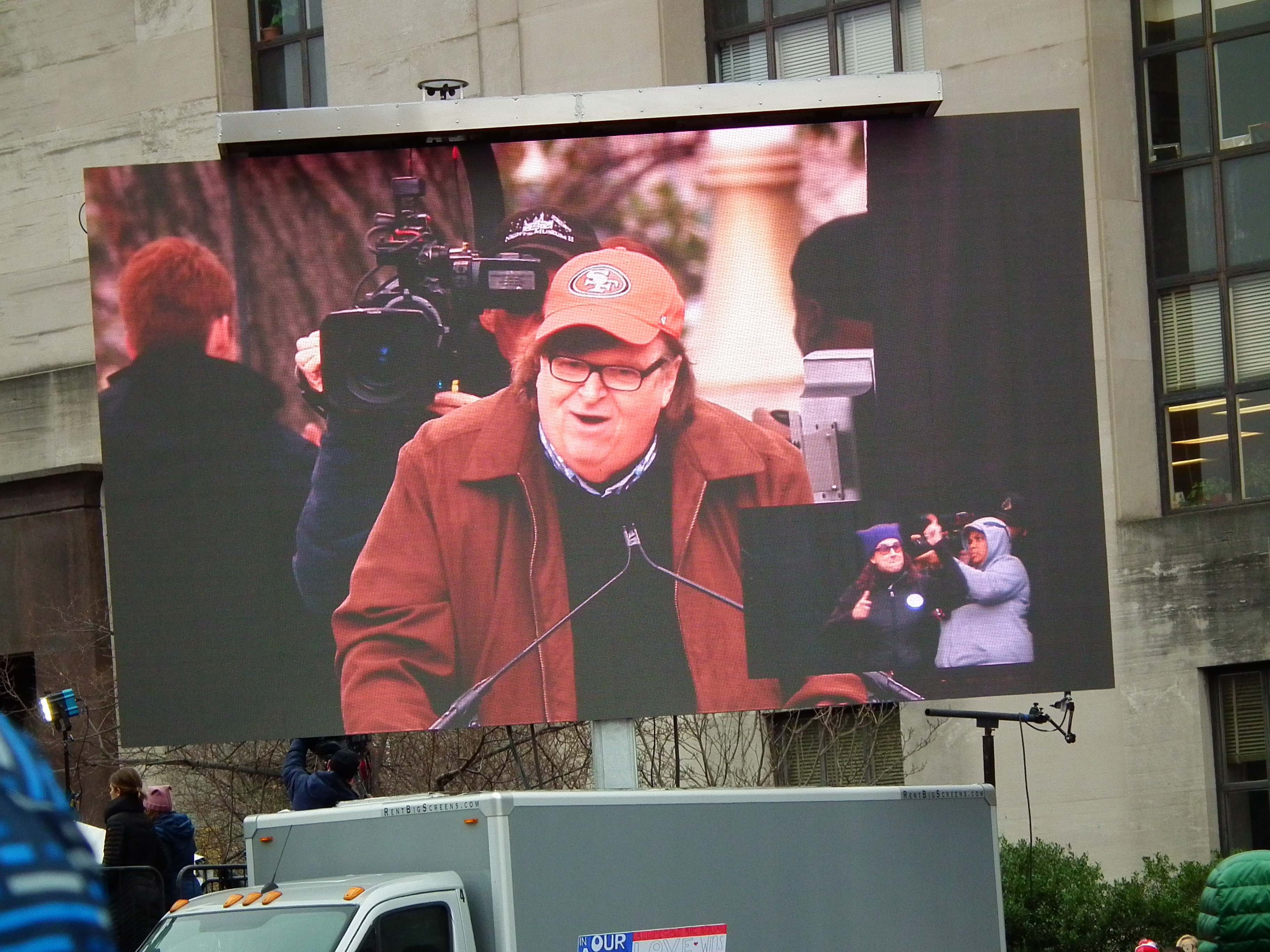 Women's March - Washington DC 2017